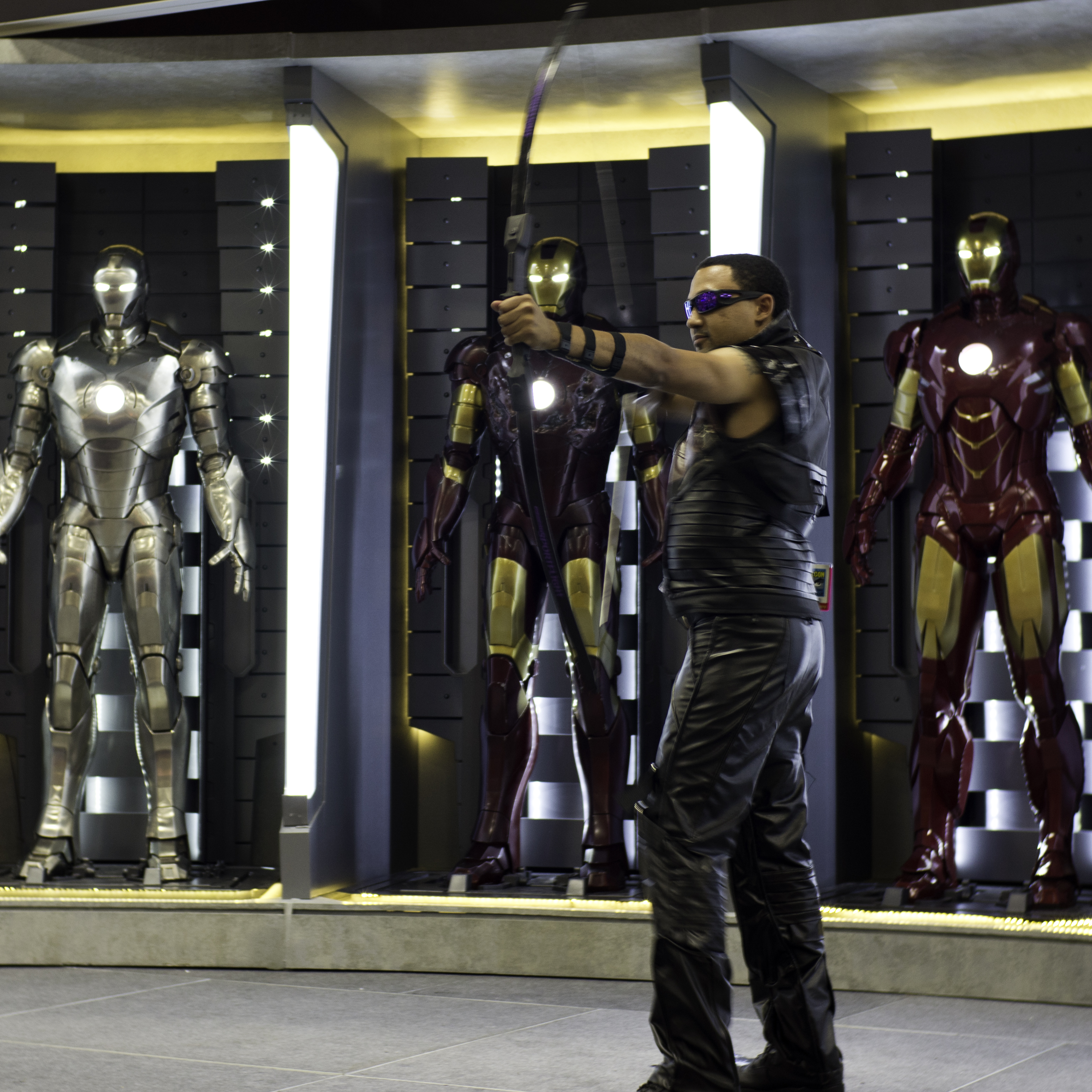 SDCC 2012 Cosplay at San Diego Comic-Con (SDCC 2012).